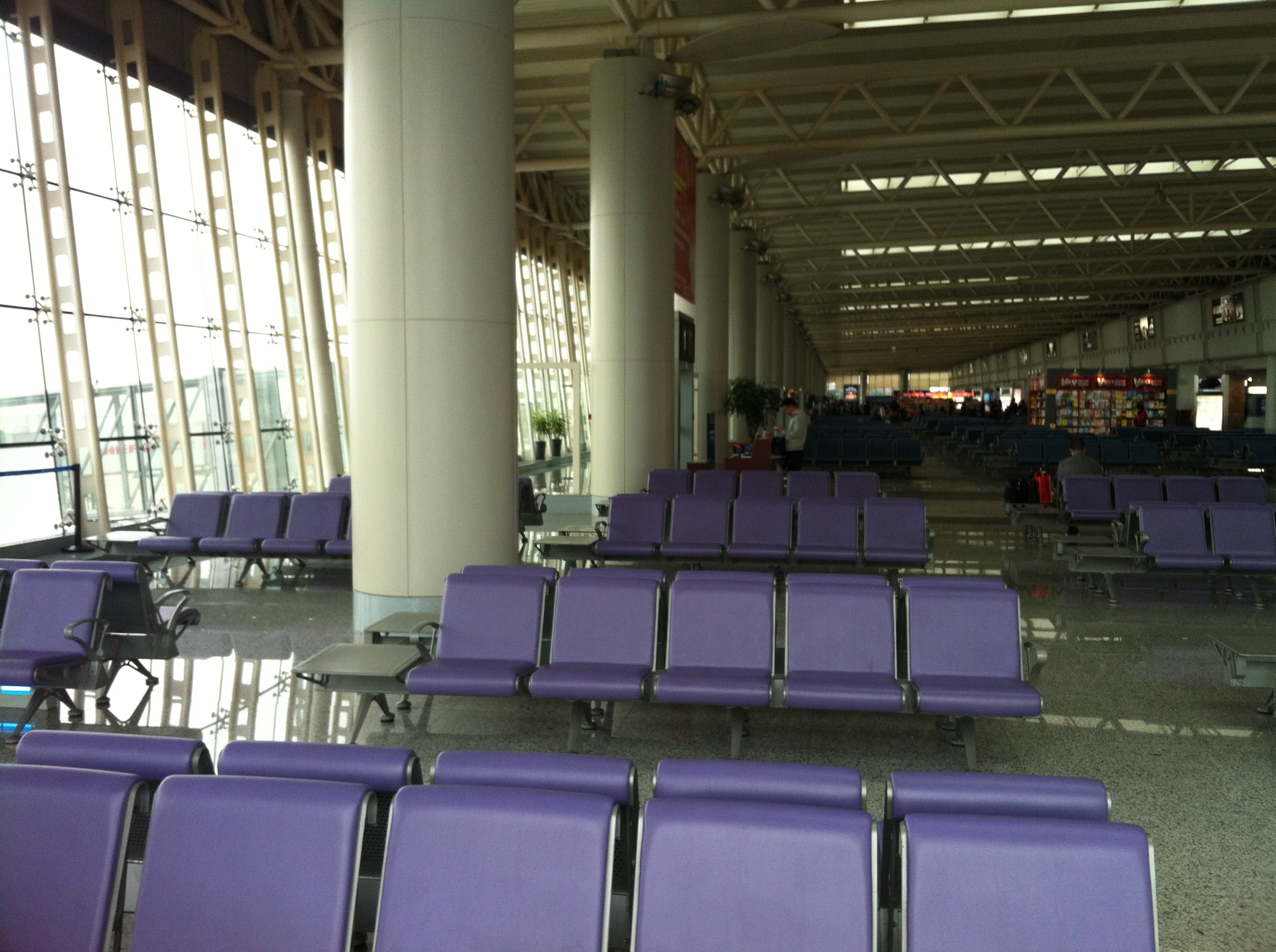 wenzhou_airport_area1